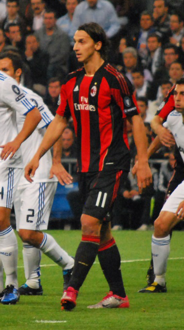 Zlatan Ibrahimović during Real Madrid CF-AC Milan, 2010–11 UEFA Champions League